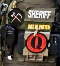 Detail from White House photo of Vice-President Mike Pence posing with members of the Broward County, Florida SWAT team, showing the patch of the "QAnon" far-Right conspirationist movement worn by one of the officers